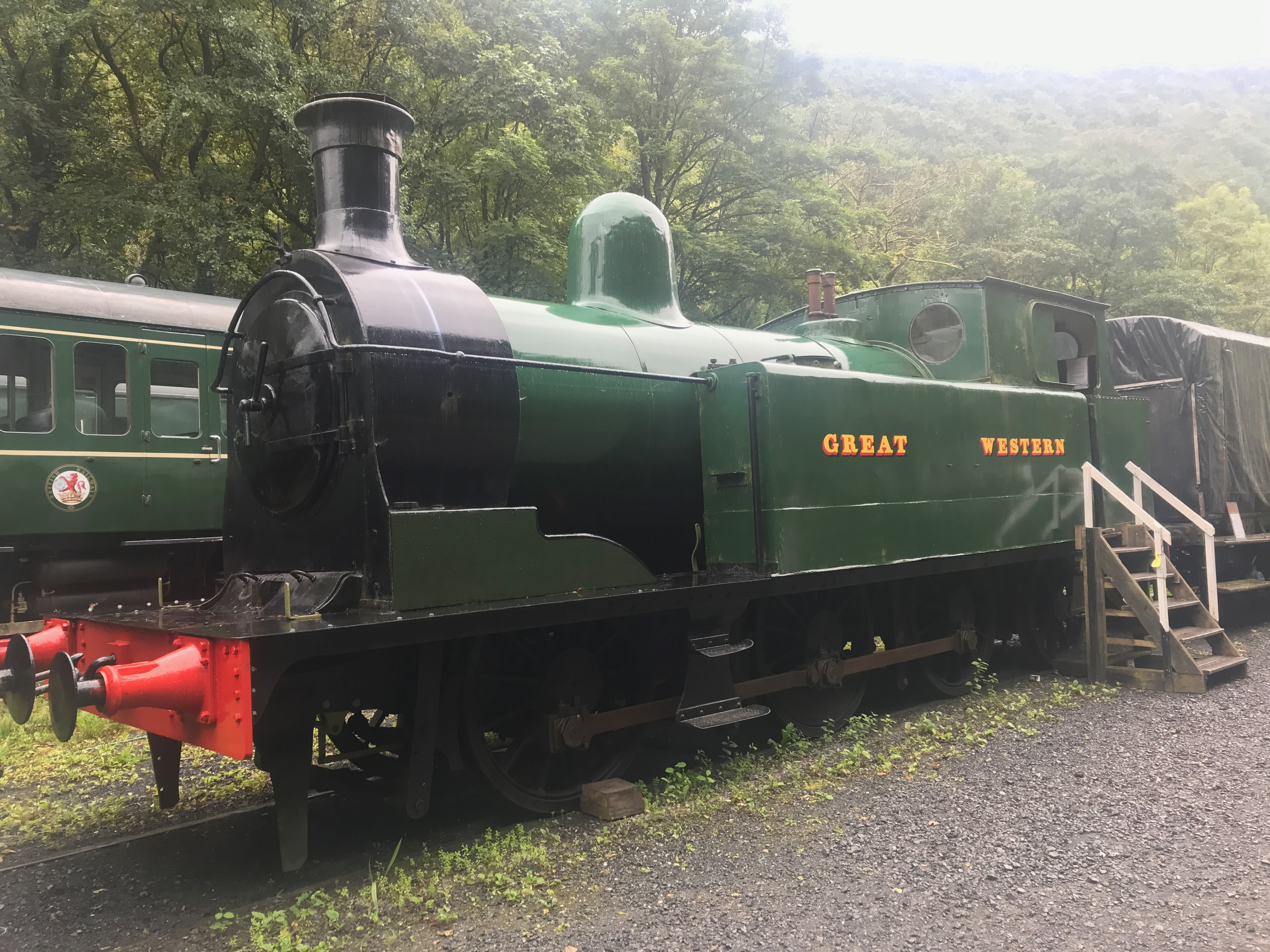 Taff Vale Railway locomotive No 28, the last steam locomotive to be constructed in Wales, and the only surviving example of the TVR O1 class. Photographed at the Gwili Railway in September 2018.